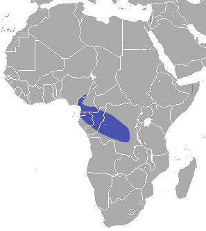 Greater Forest Shrew (Sylvisorex ollula) range